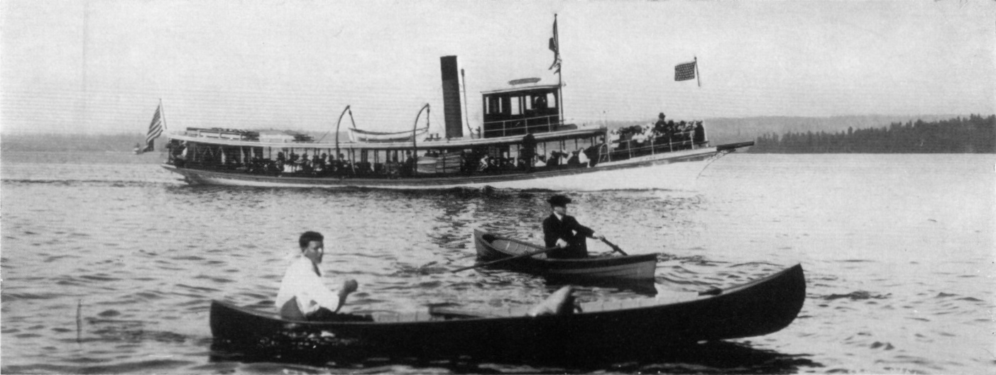 Steamboat Cyrene on Lake Washington, with canoe in foreground. This is probably near Leschi or Madison Park.